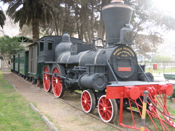 This picture was taken by C. Green in July of 2006 at the University of Atacama. It shows the original steam engine that traveled from Copaipo to Caldera.